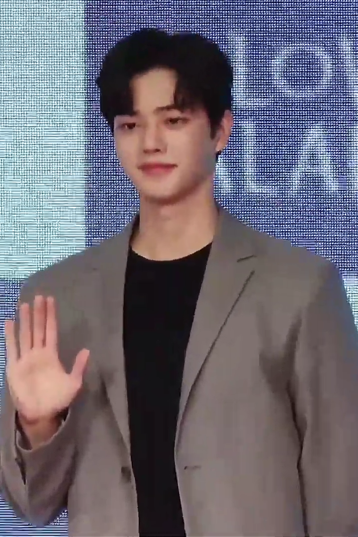 Song Kang at 'Love Alarm' press conference on August 20, 2019.